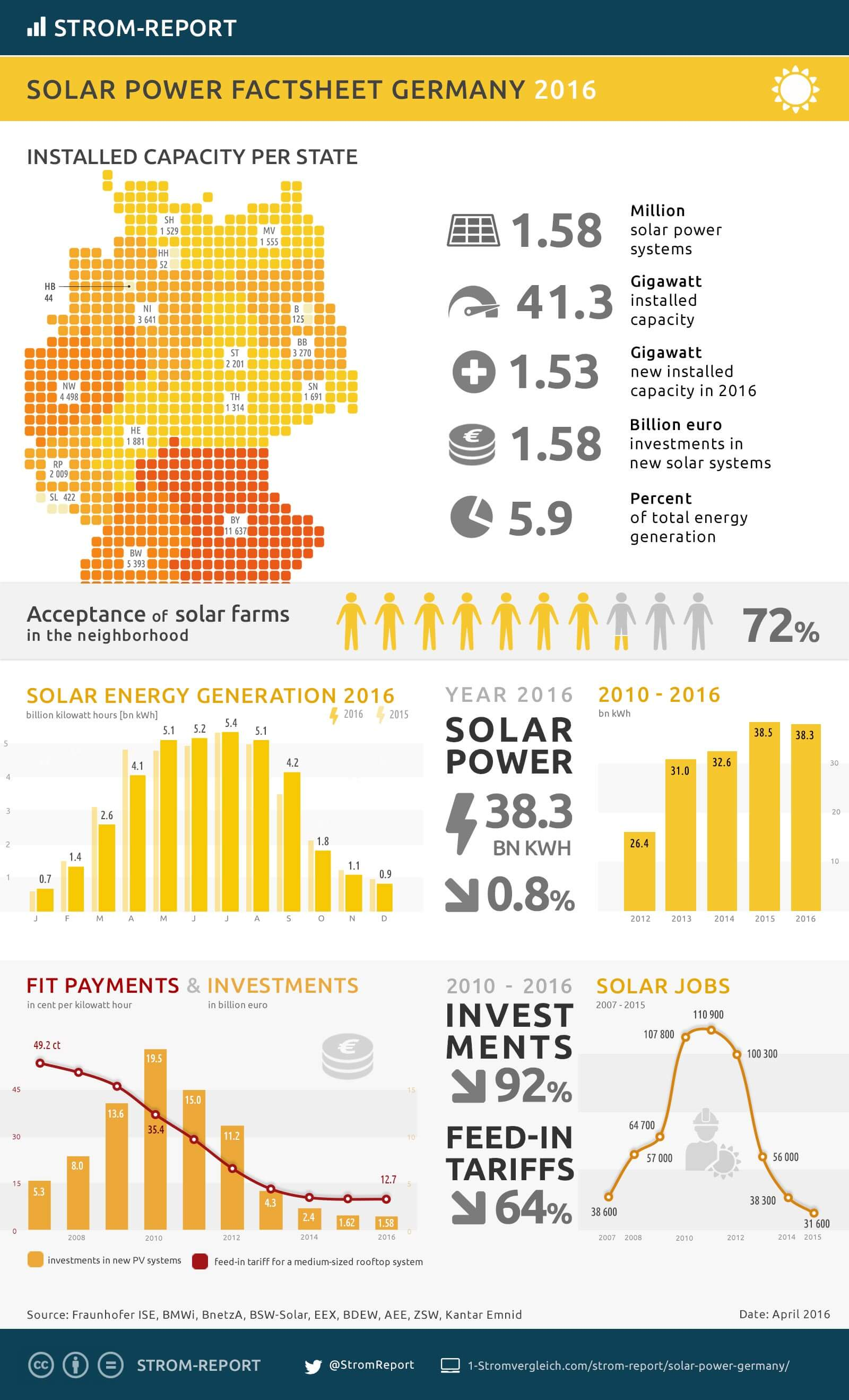 Solar power Germany 2016 fact sheet: electricity generation, development, investments, capacity, employment and the public opinion.